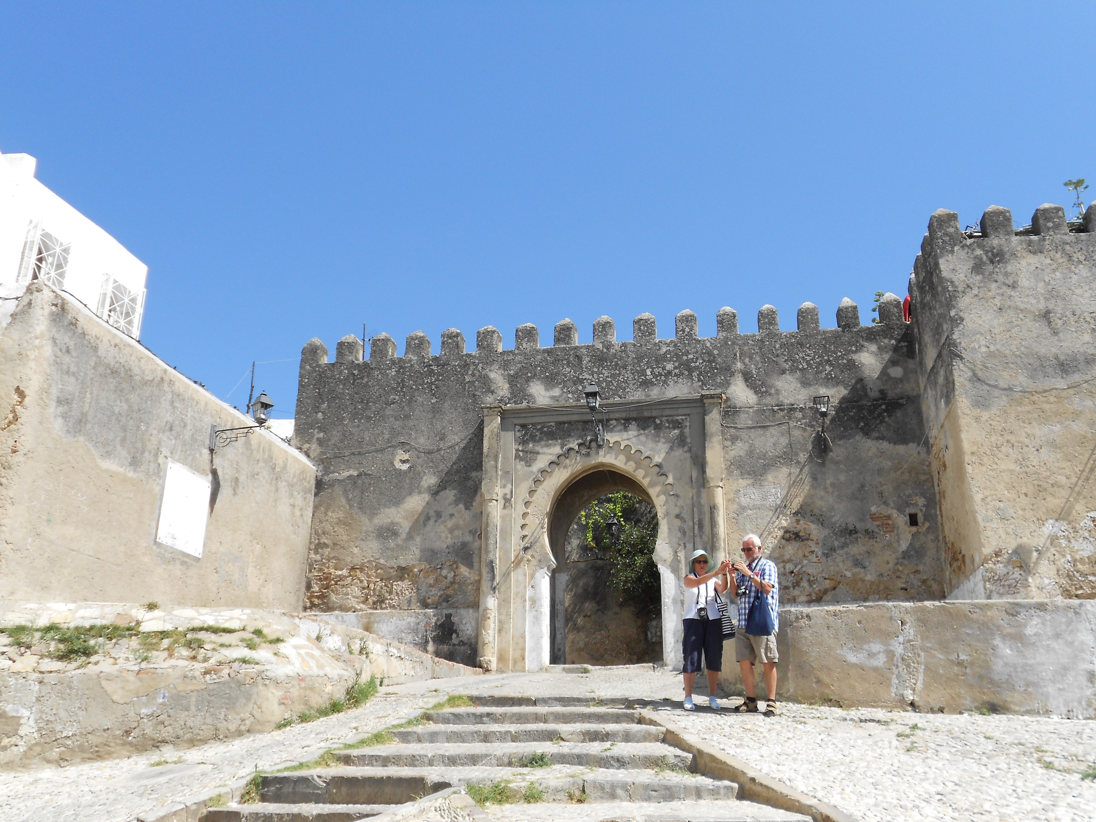 A Gate to the Casbah of Tangier, Morocco